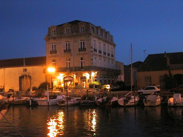 Marseillan harbour at night, Hérault, France.